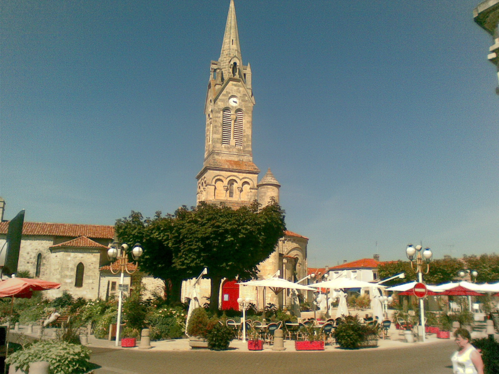 Place de l'eglise, Church, Saint-Georges-de-Didonne, Charente-Maritime, France